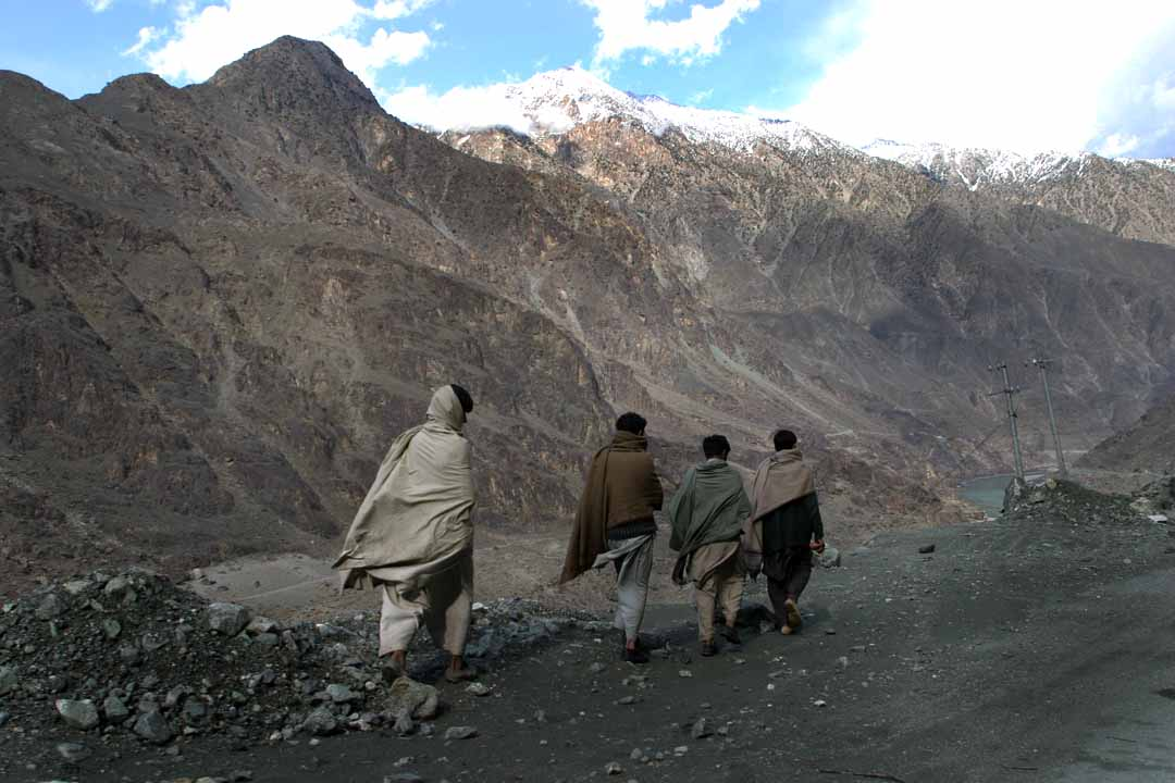 Northern Pakistan.